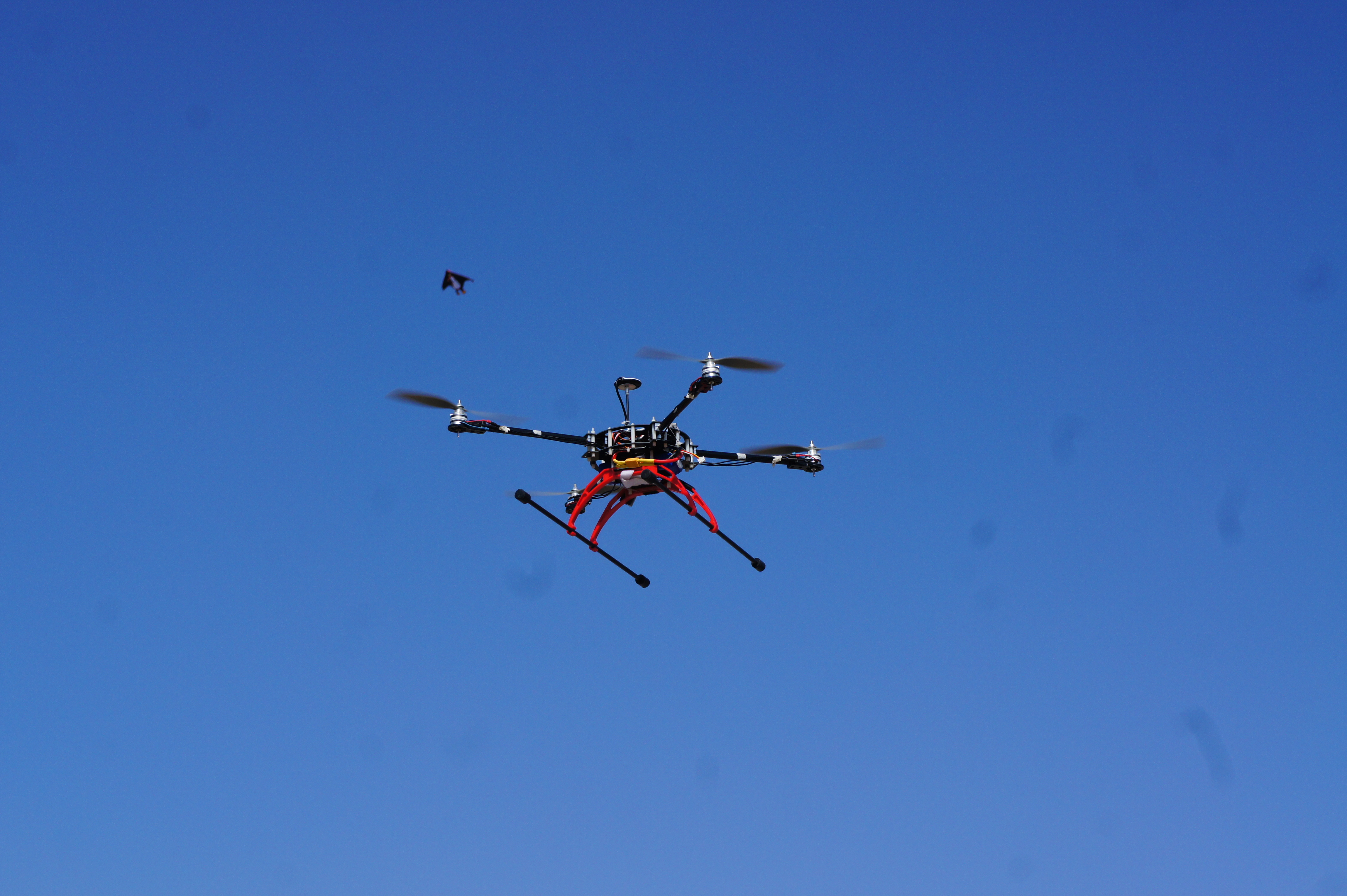 A Quadrotor flight in the air